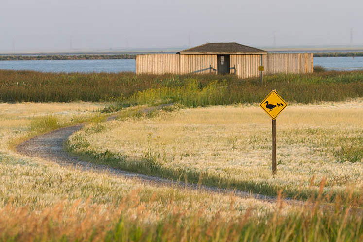 Observation blind, Frank Lake Conservation Area (also known as the Frank Lake wetlands), Alberta, Canada.